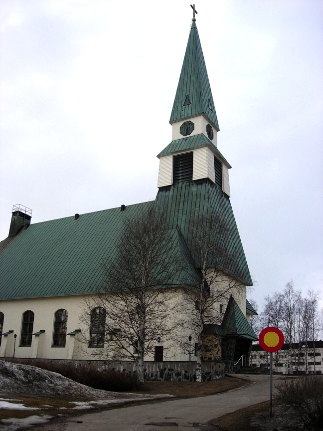 Rovaniemi Church in Rovaniemi, Finland